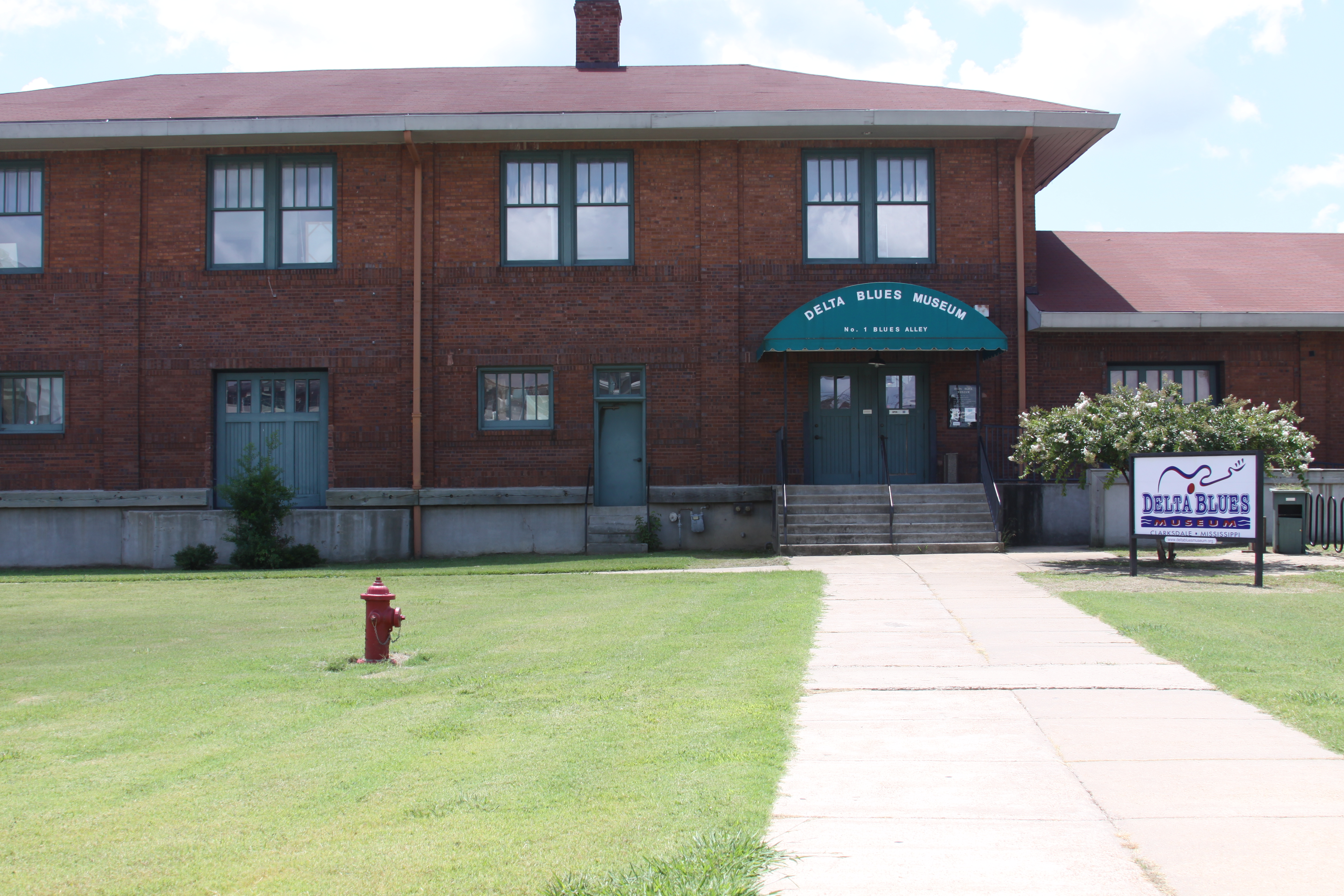 Delta Blues Museum, Clarksdale, Mississippi, United States.